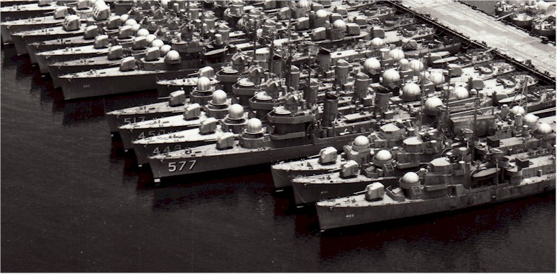 Retired U.S. Navy ships at San Diego, California (USA), in June 1950: USS Nicholas (DDE-449), USS O'Bannon (DDE-450), USS Walker (DDE-517) and USS Sproston (DDE-577), returned to mothballs after being converted to the DDE ASW configuration. All four of these DDE's were armed with of 2-5"/38cal, 5 torpedo tubes, Mk-15 ASW projector, and provisions for 4 x 2-20 mm guns. Also, seen is the USS Killen (DD-593) and several destroyer escorts, including USS Raymond (DE-341) and USS Dennis (DE-405) and a high-speed transport (APD).